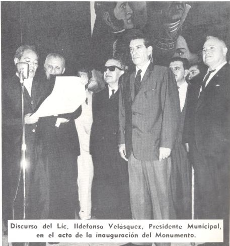 Fragmento de la fotografía tomada por José Saldaña Rico a la página 24 del Primer Informe de Gobierno del Lic. Ildefonso Velásquez Martínez, Presidente Municipal del IV Ayuntamiento de Tijuana, B.C., rendido el 1o. de diciembre de 1963. En la fotografía aparece con el Lic. Adolfo López Mateos, Presidente de México. El texto a pie de foto dice: "Discurso del LIc. Ildefonso Velásquez, Presidente Municipal, en el acto de inauguración del Monumento". El documento se encuentra en el Archivo Histórico de Tijuana, ubicado en calle 2a. esquina Av. Constitución en Tijuana, B.C.